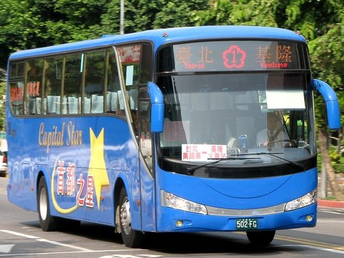 Capital Bus Co., Ltd. (Taiwan) operated a freeway line "Keelung Station - Miramar Entertainment Park" with a special name called "Capital Star", in the picture is HINO LRM2PSU with 300hp.